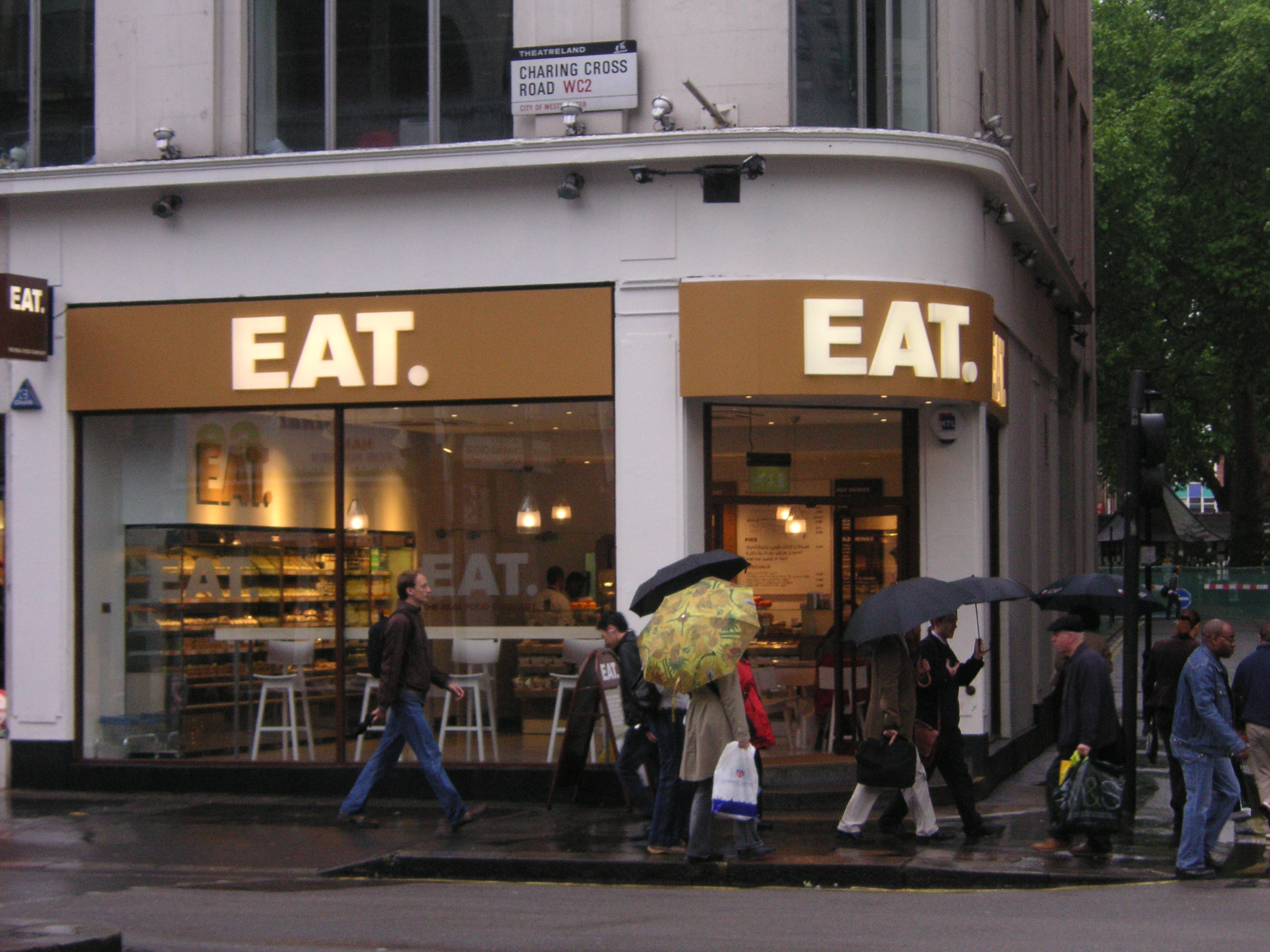 An EAT. shop in Charing Cross Road, London, England. Photo by KF, May 2007.